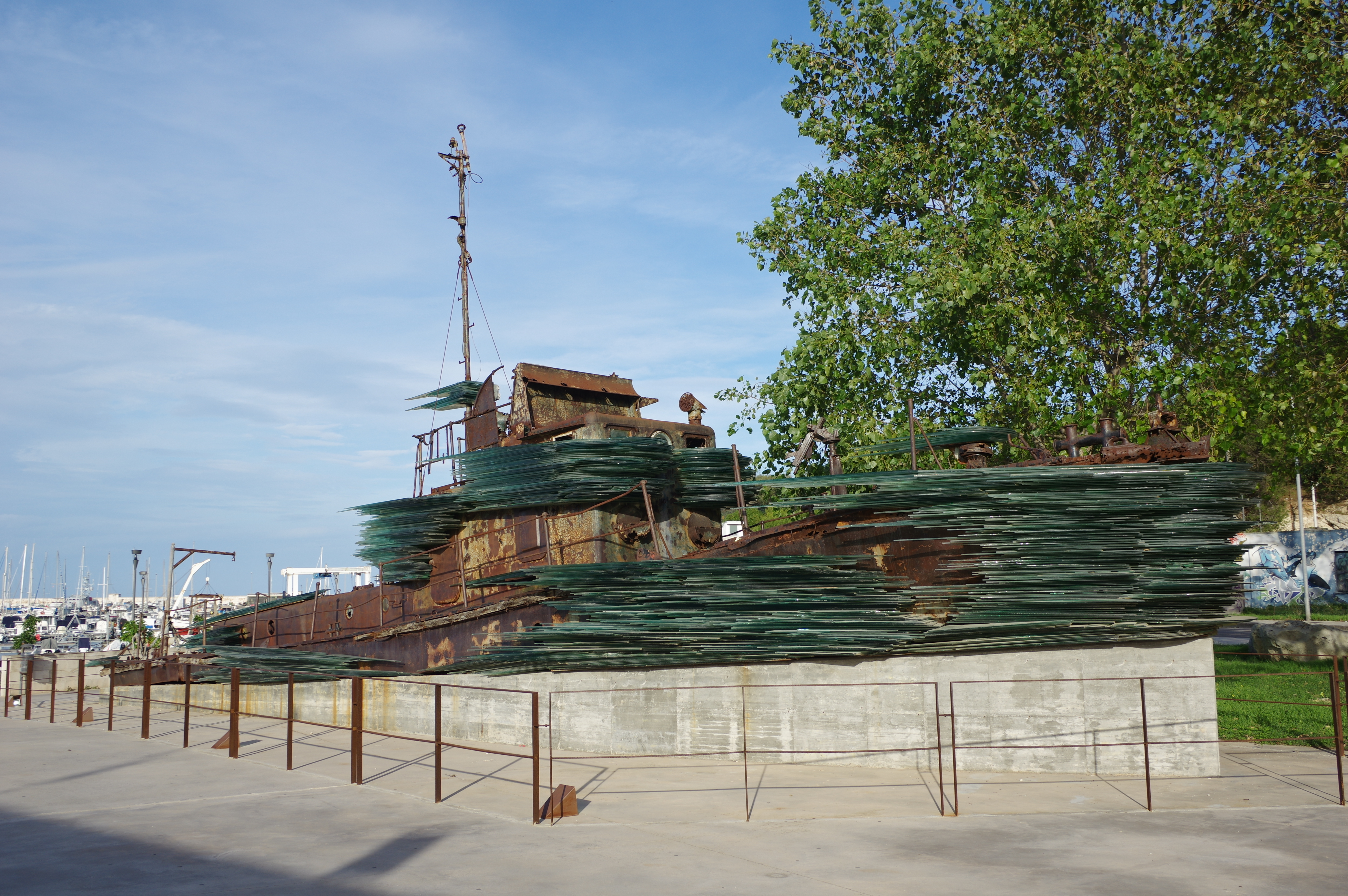 Memorial for the tragedy of Otranto in 1997